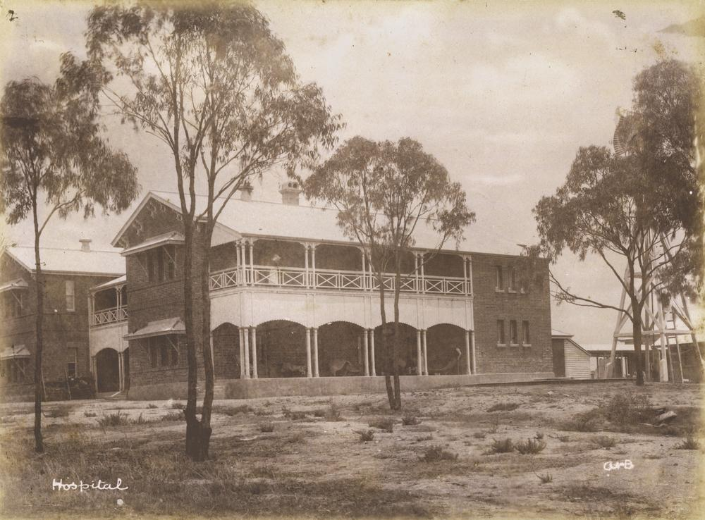 Charters Towers hospital, ca. 1888. Two storey brick building with wide verandahs and sunshades to the windows.